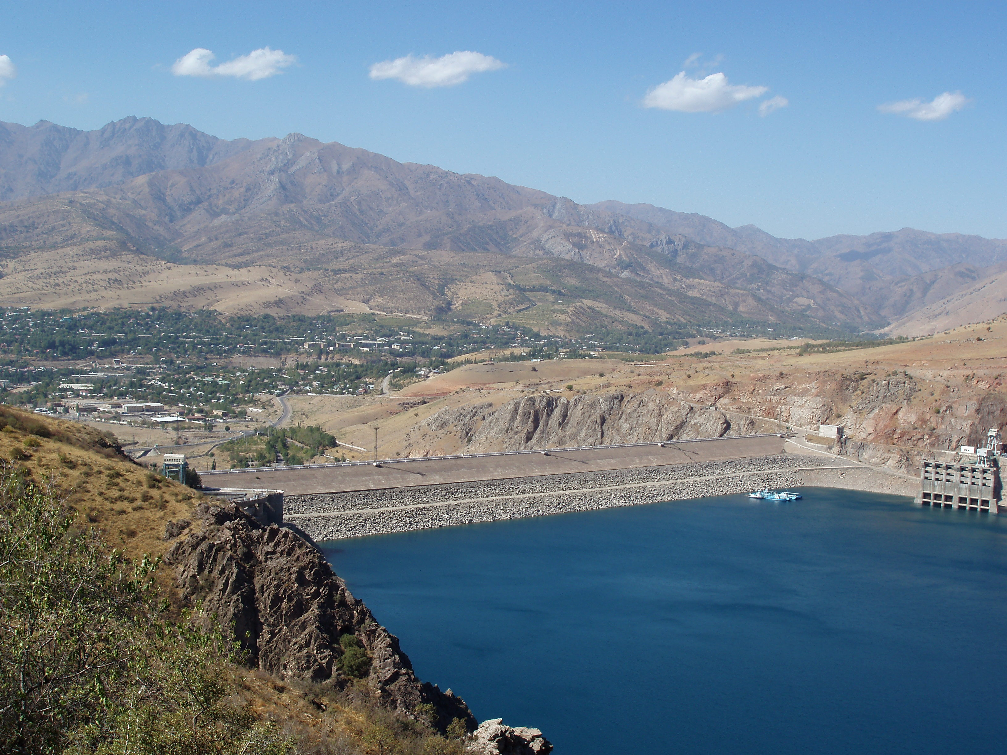 dam of Charvak reservoir in Uzbek province of Tashkent